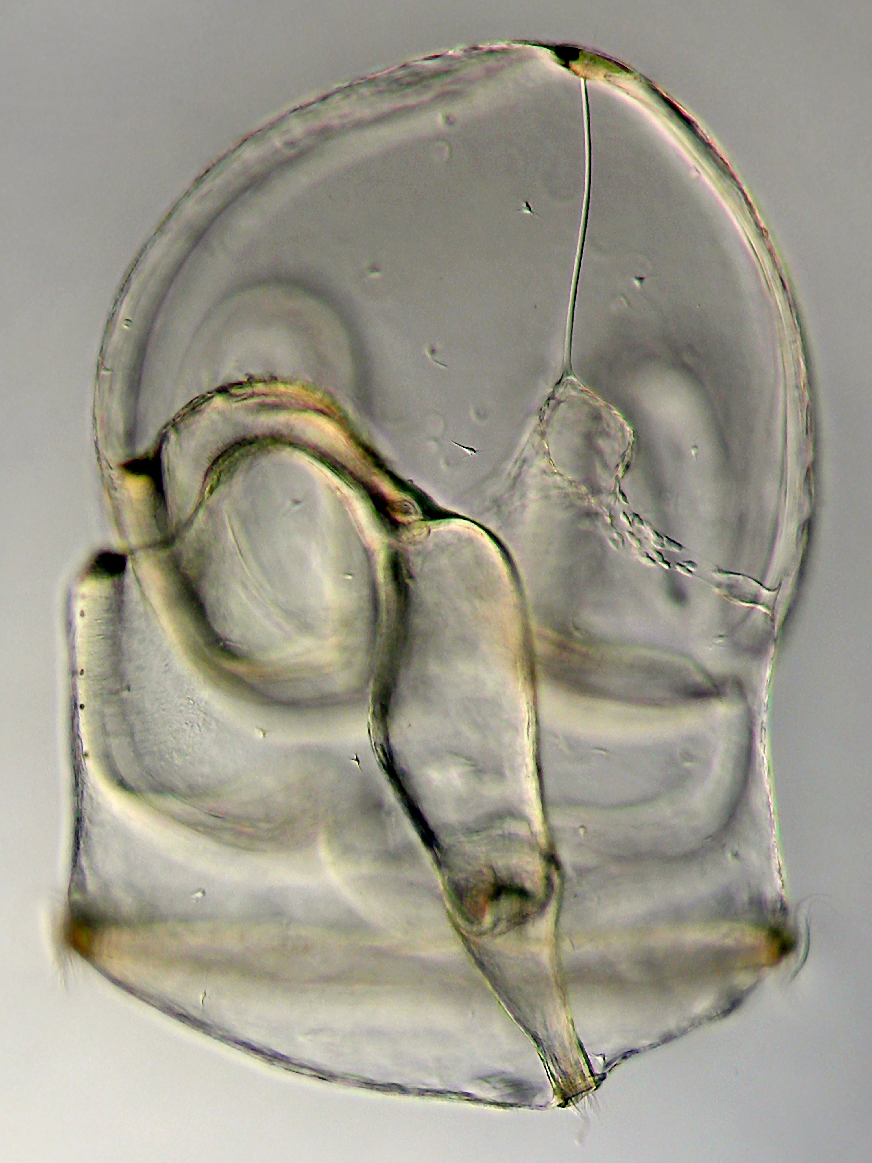 Planktonic larva of an unidentified hemichordate.